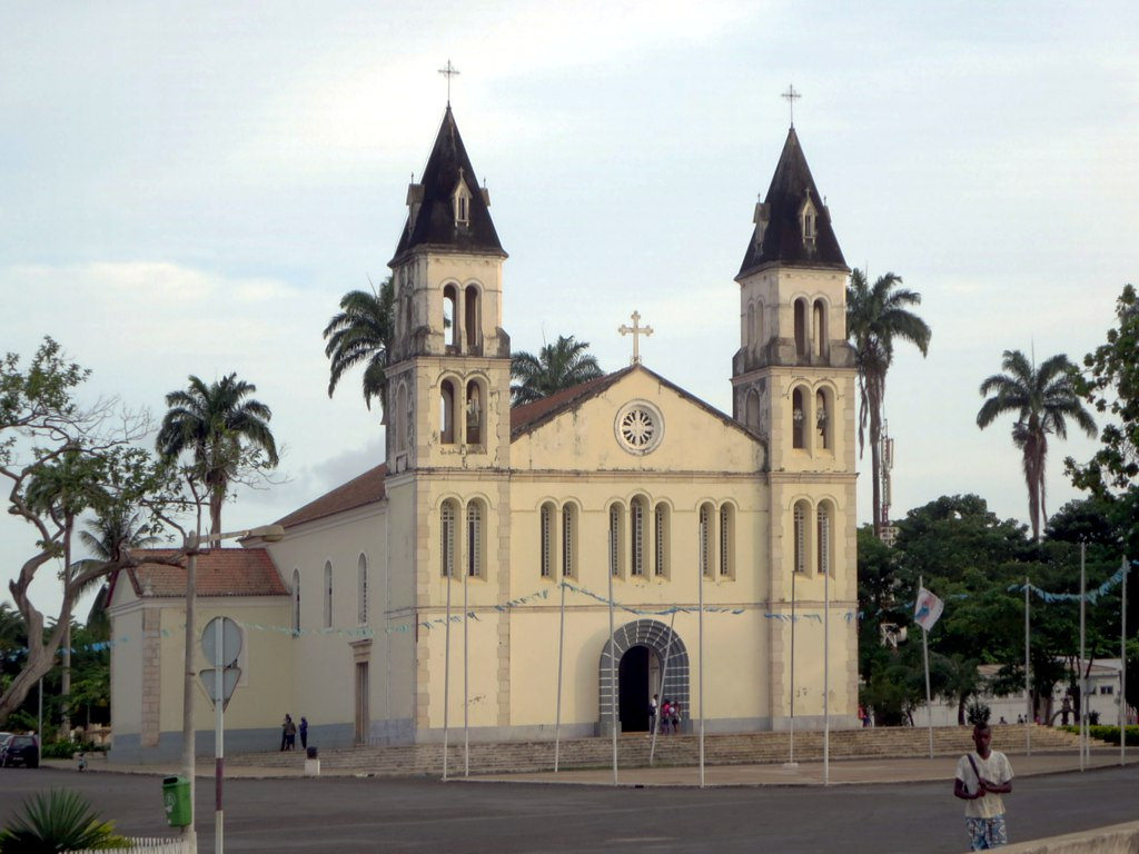 The 16th century Catedral de Nossa Senhora da Graça in Sao Tome, São Tomé and Príncipe, was rebuilt in 1814. The current facade dates from a 1956 restoration.